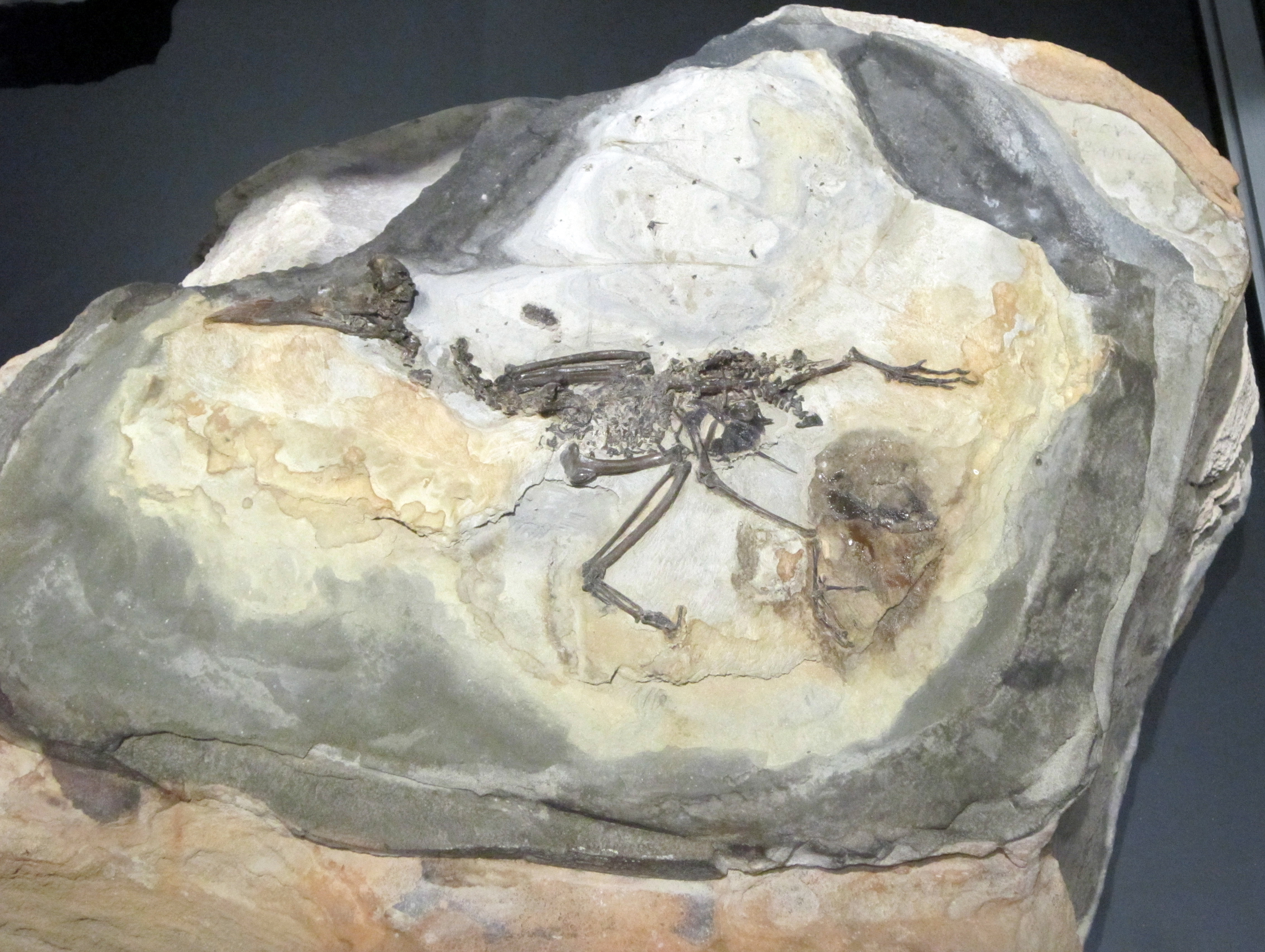 Septencoracias morsensis holotype block (specimen MGUH.VP 9509), Zoological Museum of Copenhagen.